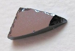 A crystal of gallium arsenide. It looks similar to a pure silicon crystal.